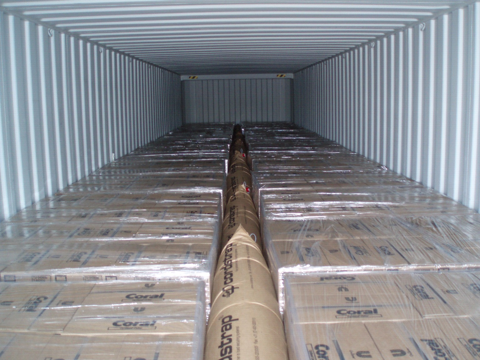 Cordstrap dunnage bags in container